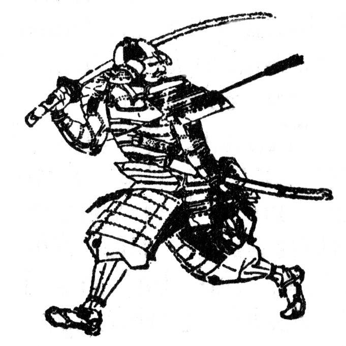 Picture of Wada Masatomo 1352